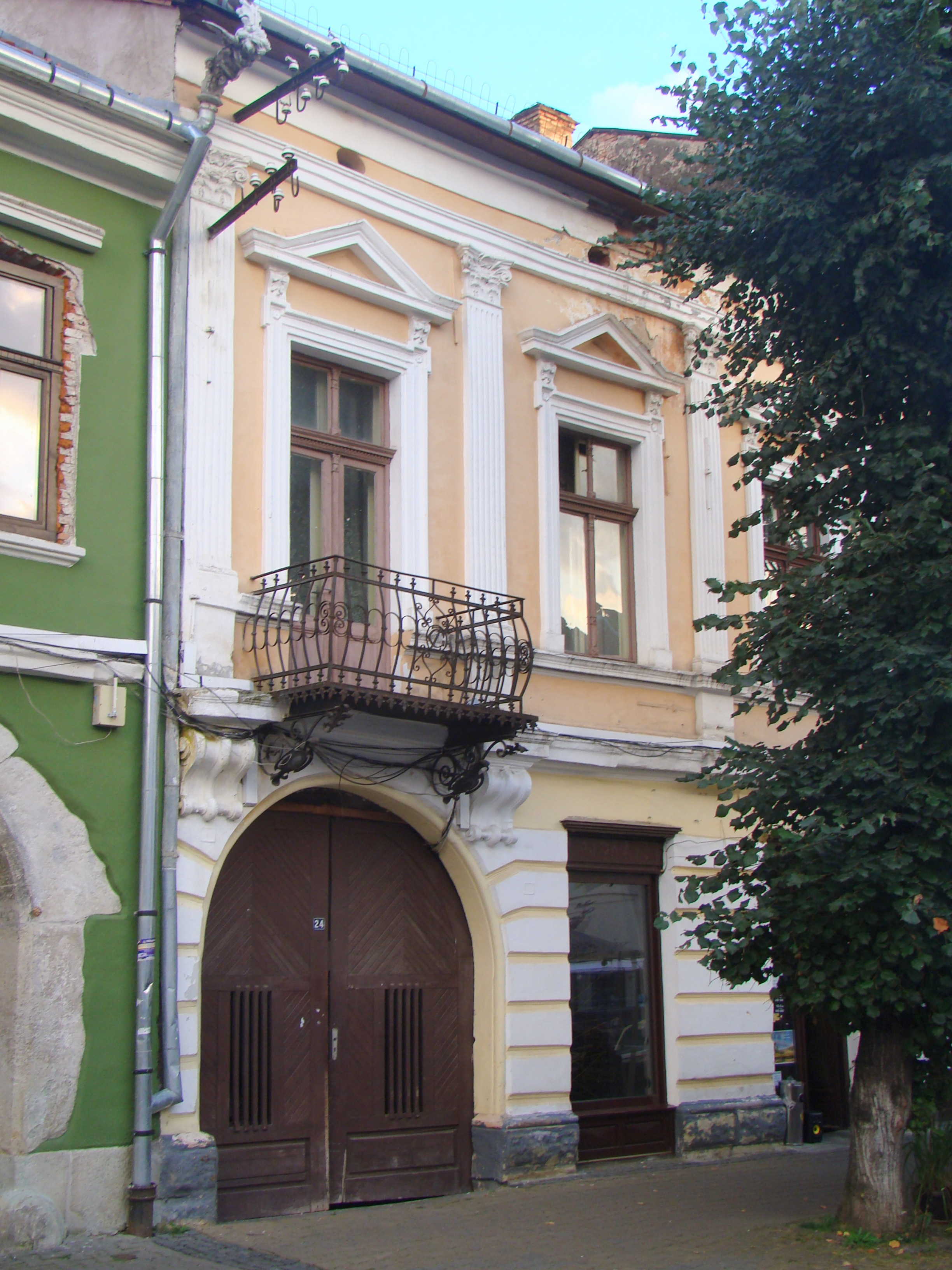 House, historic monument, in Bistrița, Liviu Rebreanu street 24